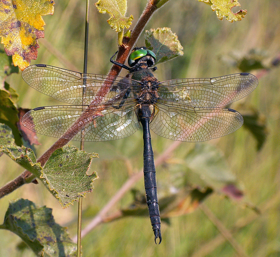 Northern Emerald (Somatochlora arctica) male Brunsummer Heide, The Netherlands